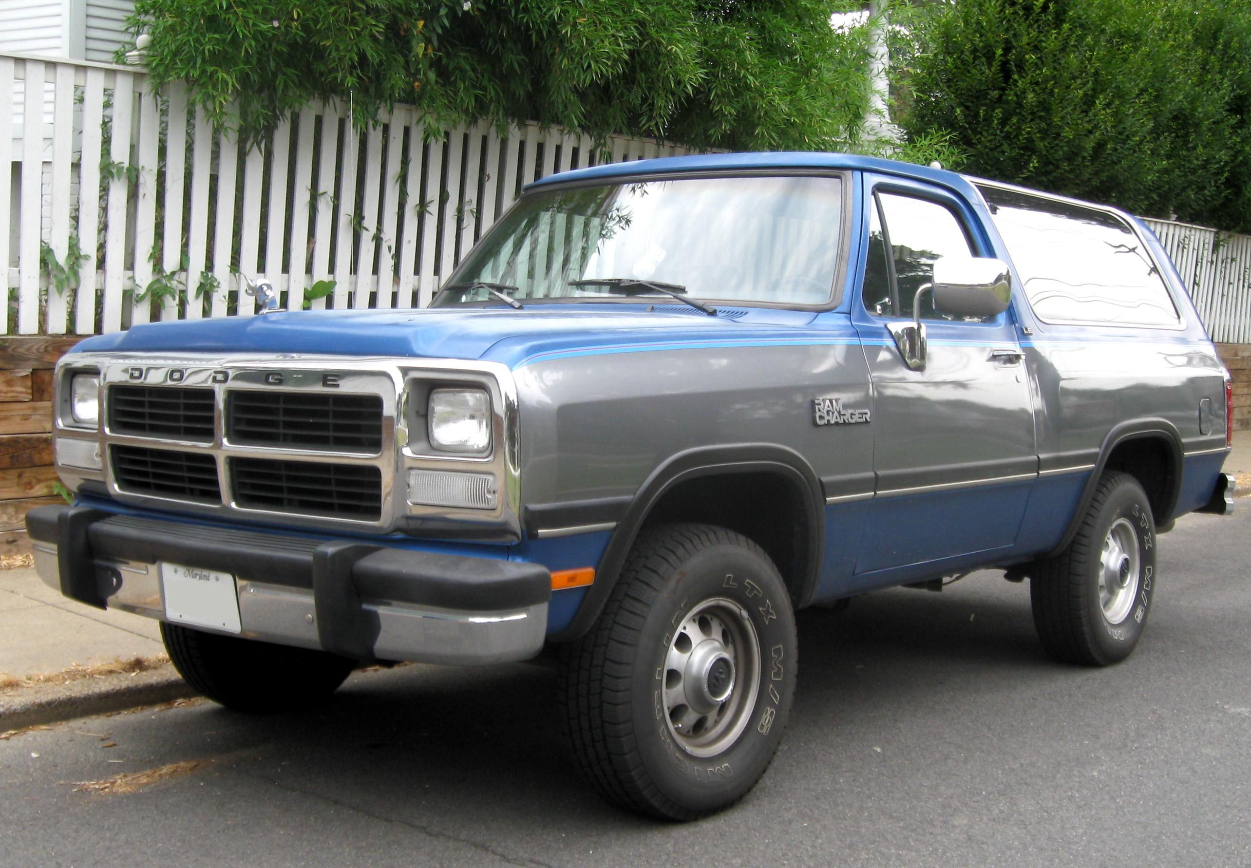 1991-1994 Dodge Ramcharger photographed in Washington, D.C., USA.